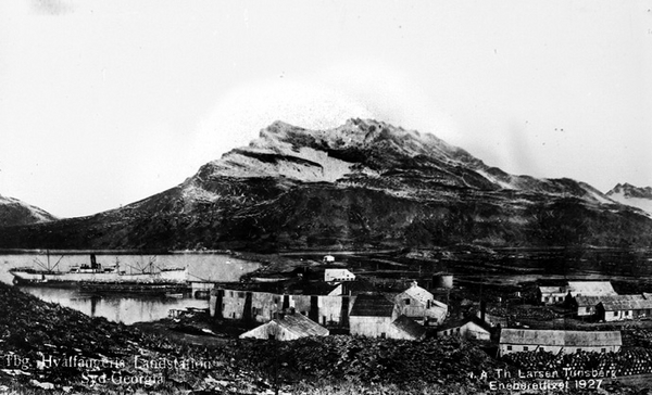 Tønsberg Hvalfangeri's whaling station at Husvik, South Georgia